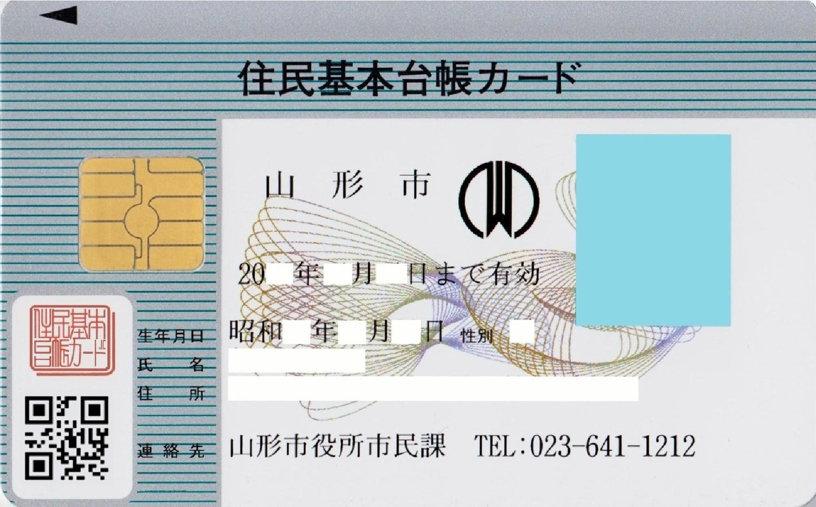 the Basic Resident Registration Card(Identification card JAPAN) Yamagata City issue